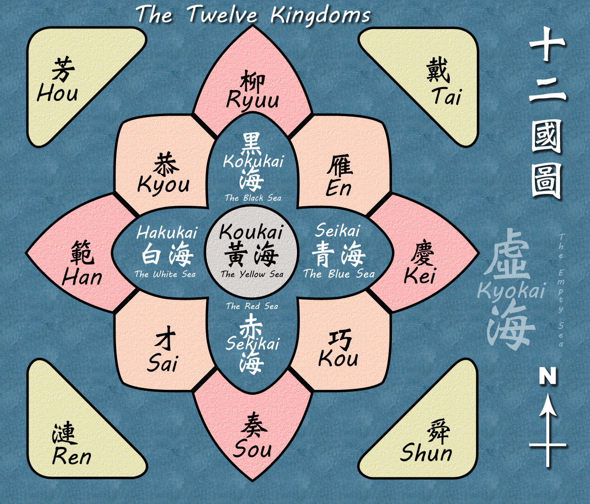 Map of The Twelve Kingdoms modified with Roman characters.